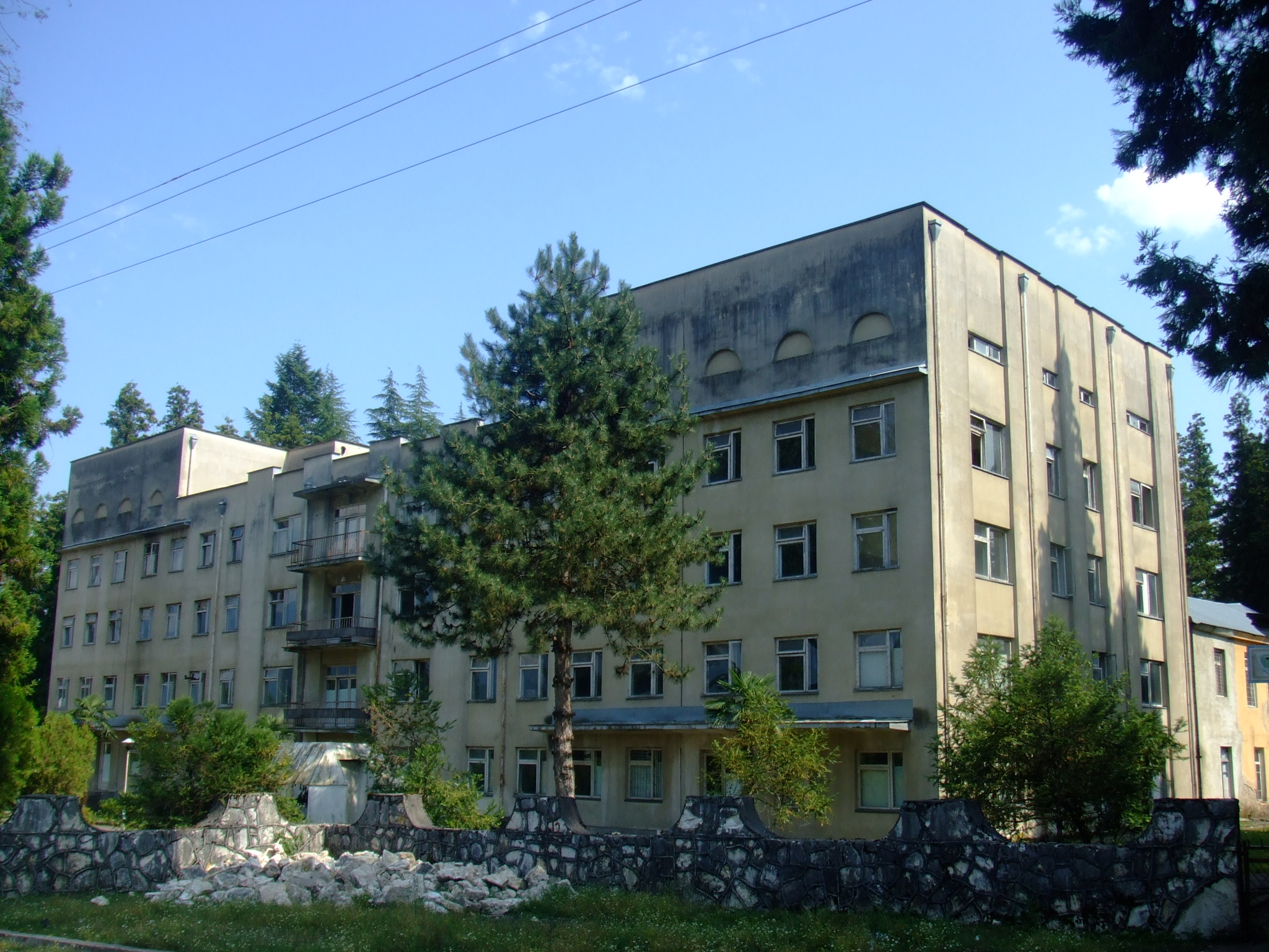 Tsalenjikha